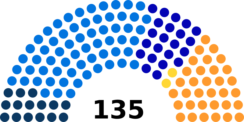 Seats diagramme of Swiss National Council (1872)